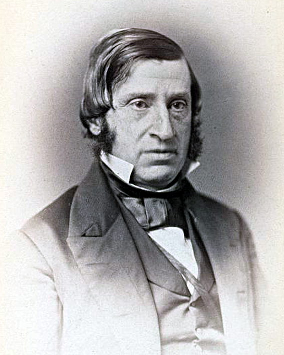 Henry Myer Phillips, US Representative from Pennsylvania